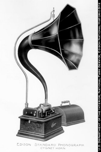 Edison Standard Phonograph, Model "F" or "G"